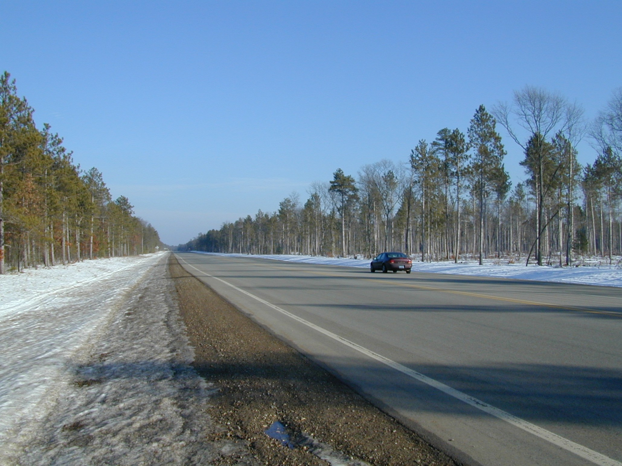 Trees line a wintry stretch of M-65. Byway travelers will experience a working national forest including tree harvesting, prescribed burning, wildfire control, and wildlife habitat improvement.